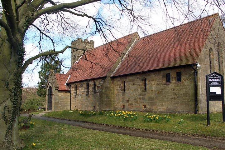 St James The Greater Church of England, Lealholm, North Yorkshire